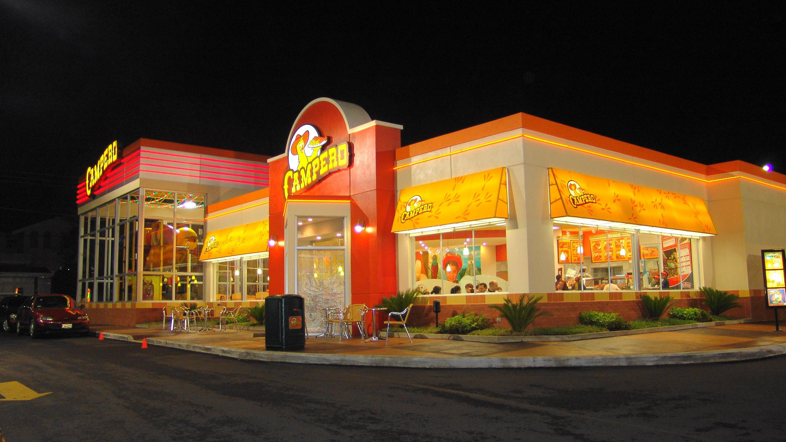 Pollo Campero restaurant